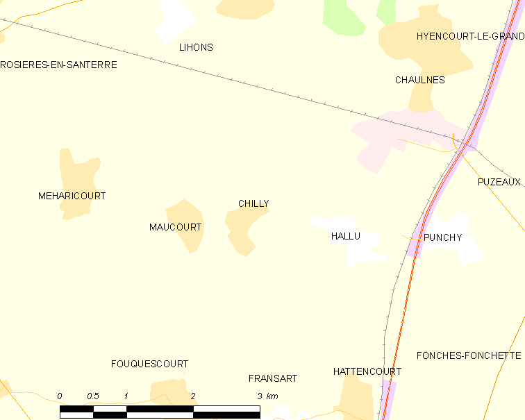 Map of French municipality Chilly